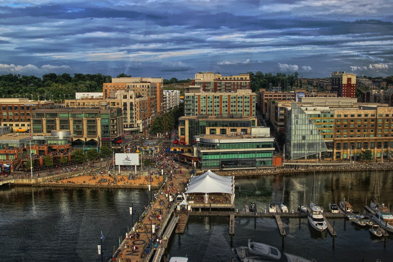 National Harbor